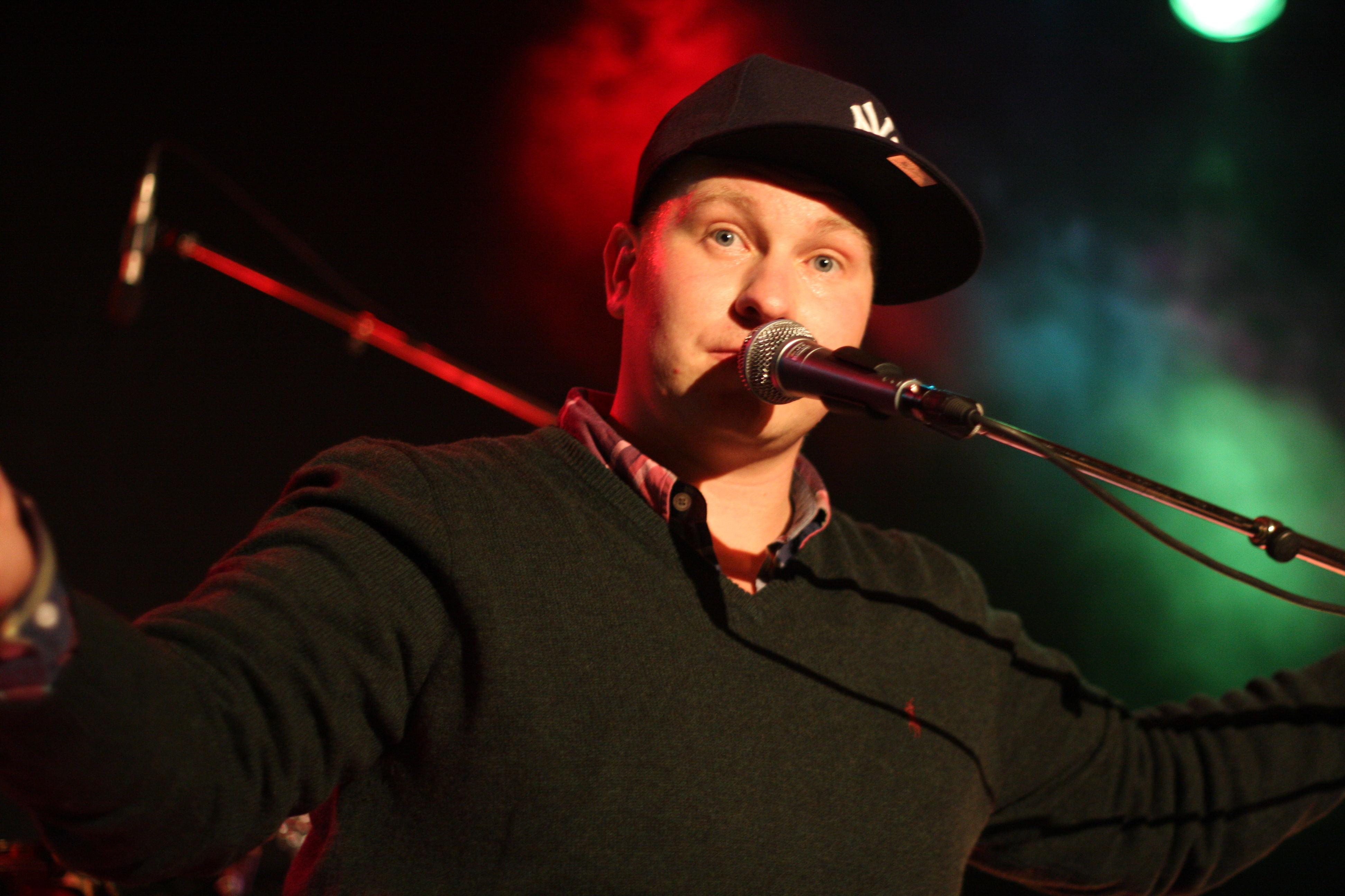 Swedish soul singer Samuel Ljungblahd singing in Höganäs, Sweden.